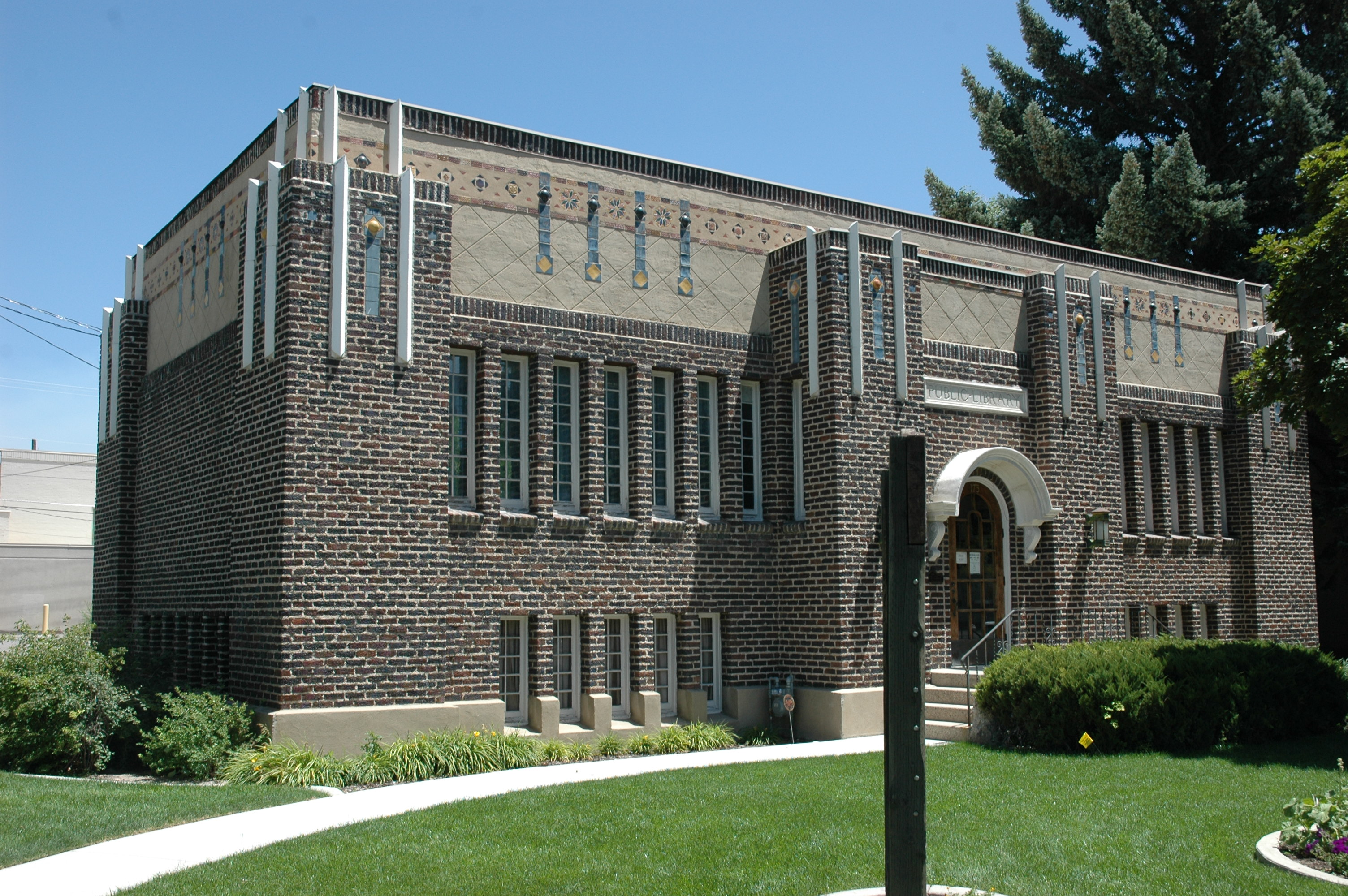 The Springville Carnegie Library, a former Carnegie library in Springville, Utah, United States, now houses the Springville museum of the Daughters of Utah Pioneers.